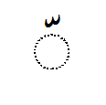 The letter Shadda from the Arabic alphabet, belonging to the group of Harakat diacritic marks, used to represent vowels. The shadda marks a long consonant. It is thus functionally equivalent to writing a consonant twice in most Latin writings. The circle indicates the position of the consonant the Harakat is used upon.